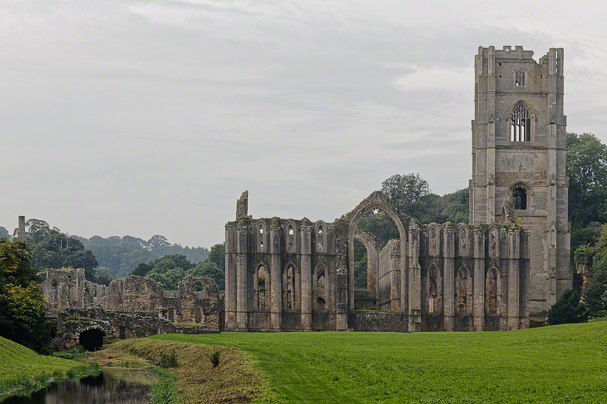 Fountains Cistercian Abbey showing the River Skell, Tower & Chapel of Altars